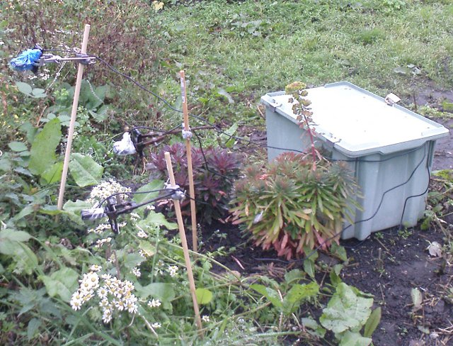 Rana field prototype. The datalogger and batteries are in the large grey box. The logger is servicing three webcams (on dowel poles over flowers)